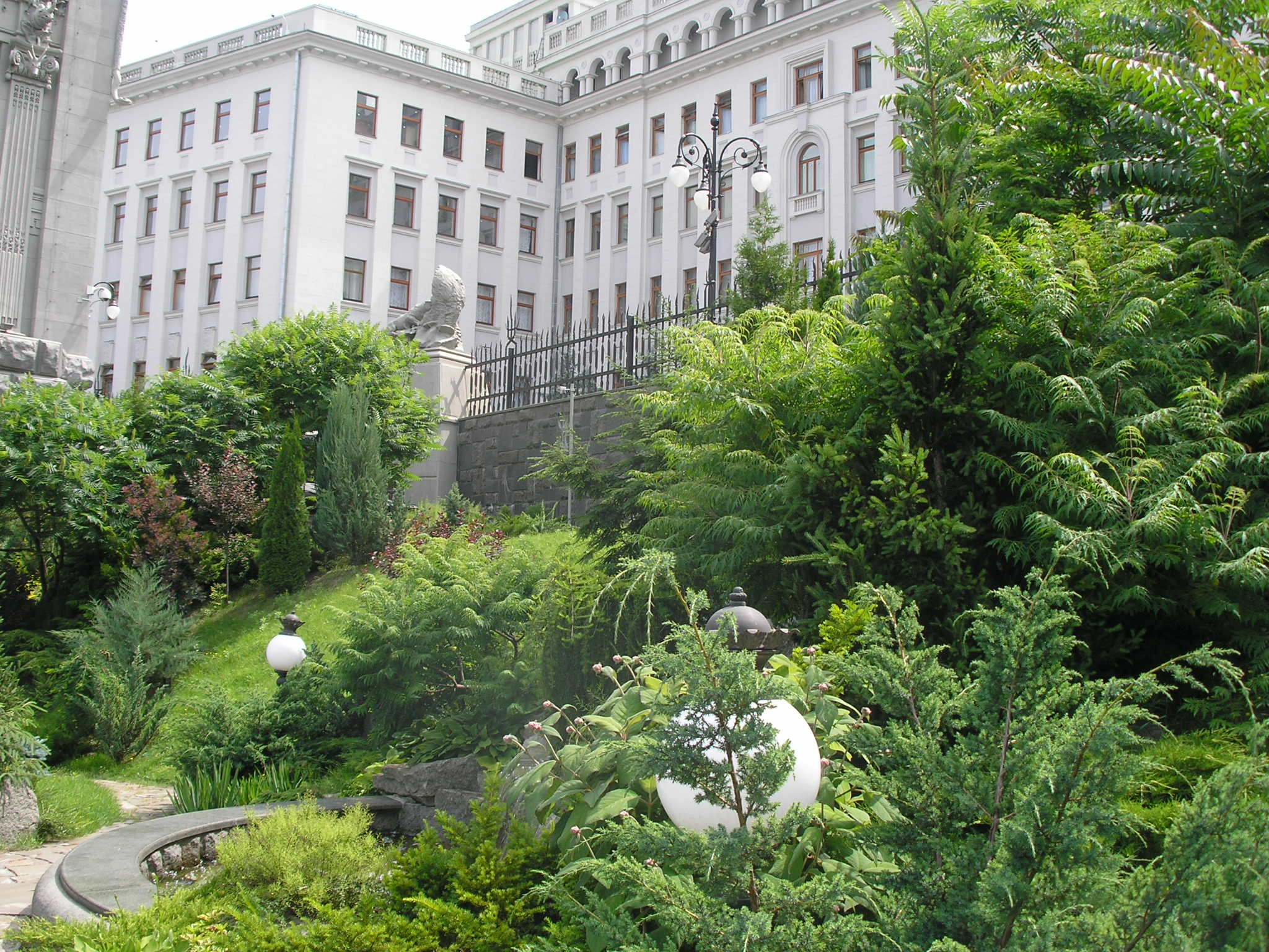 View of the adjoining gardens near the House with Chimaeras in Kiev, Ukraine.